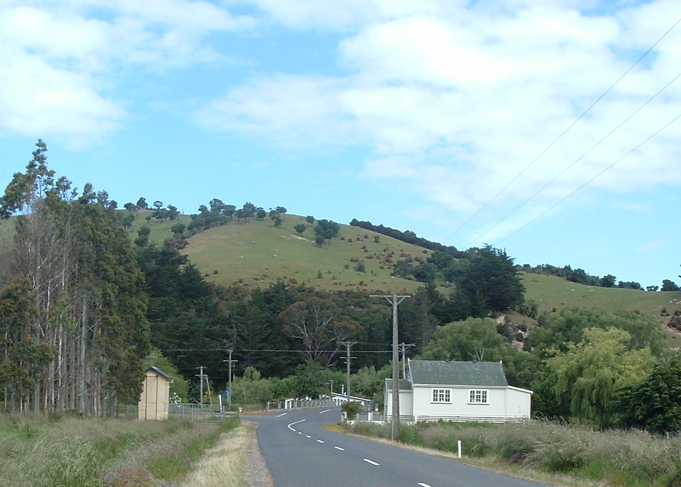 Henley, New Zealand. View along Henley Berwick Road, looking south-east from Allanton Waihola Road (State Highway 1).